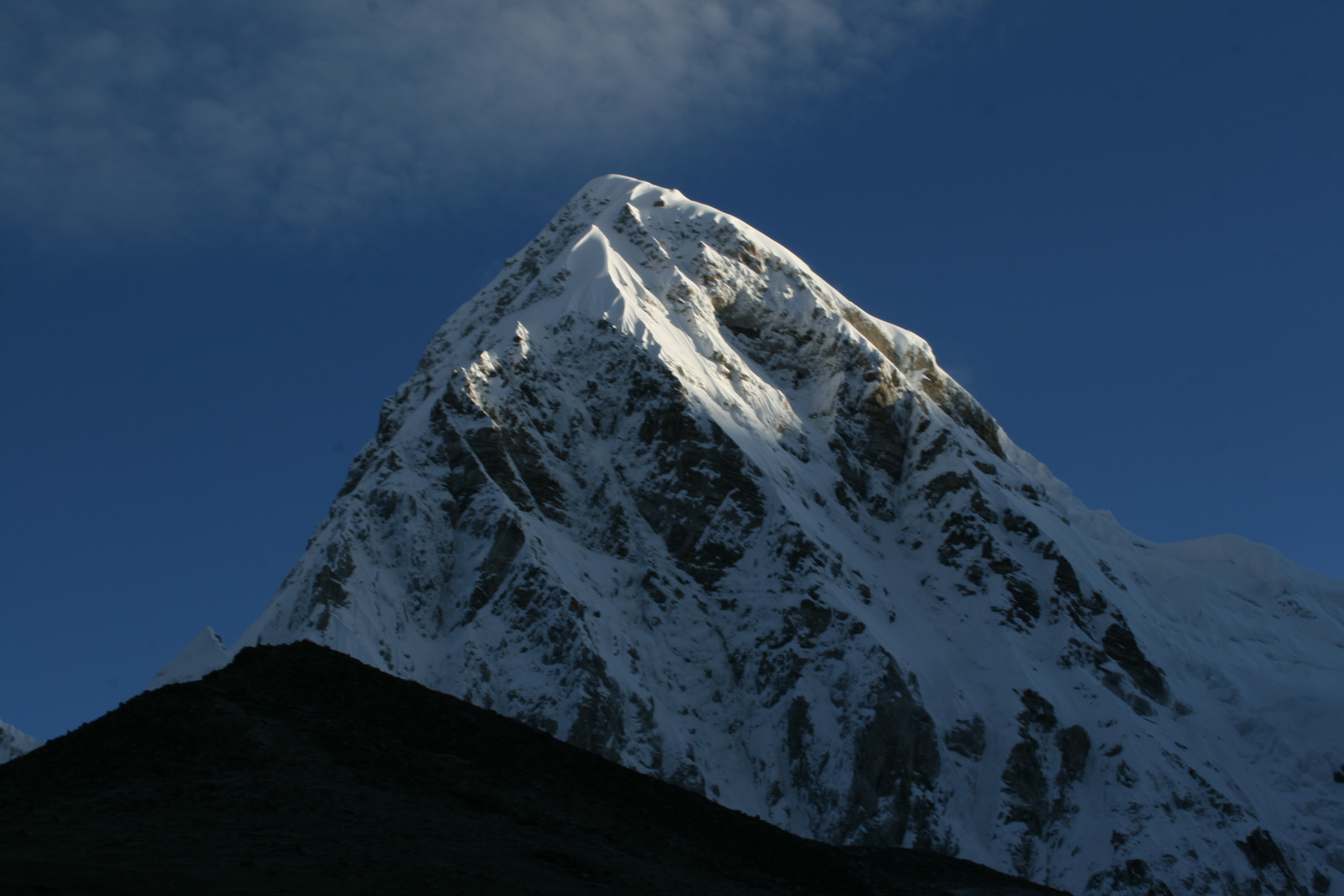 Pumo Ri from Kala Patar